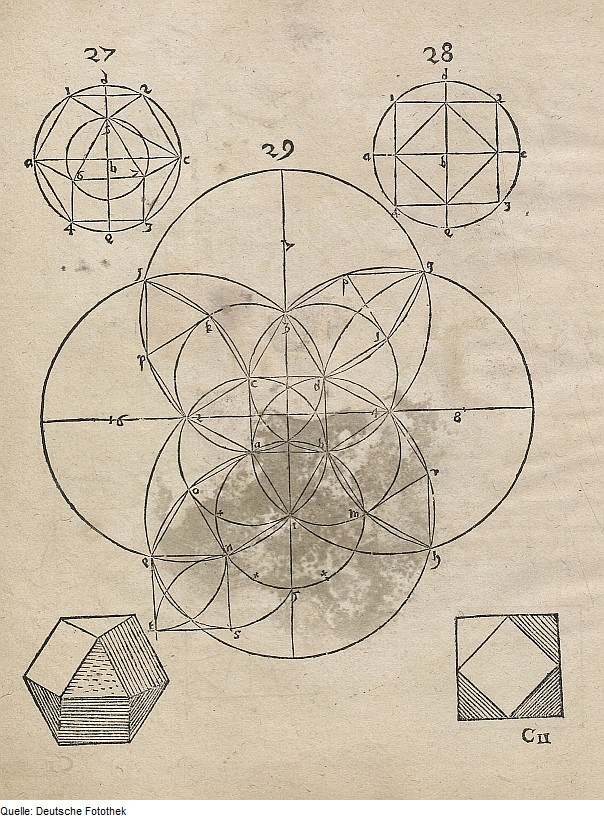 Original image description from the Deutsche Fotothek Geometrie & Architektur & Perspektive & Polyeder